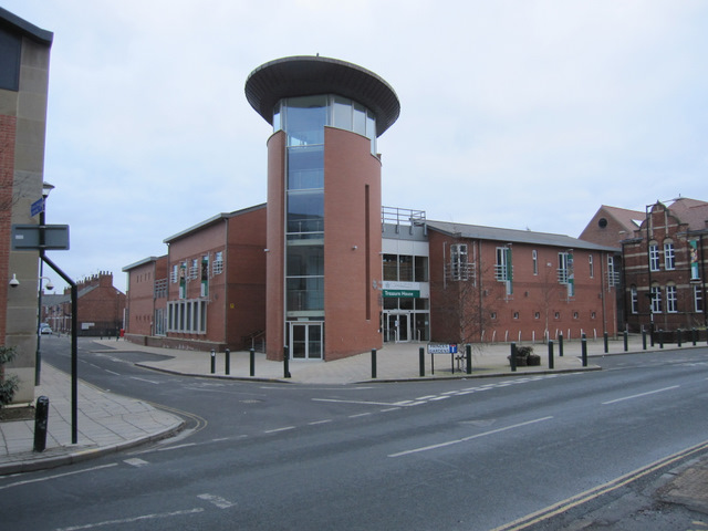 The Treasure House, Beverley, East Riding of Yorkshire, England.Looking across Champney Road to the Treasure House, Beverley's new state of the art home for all things historic, including the East Riding archives. Link.